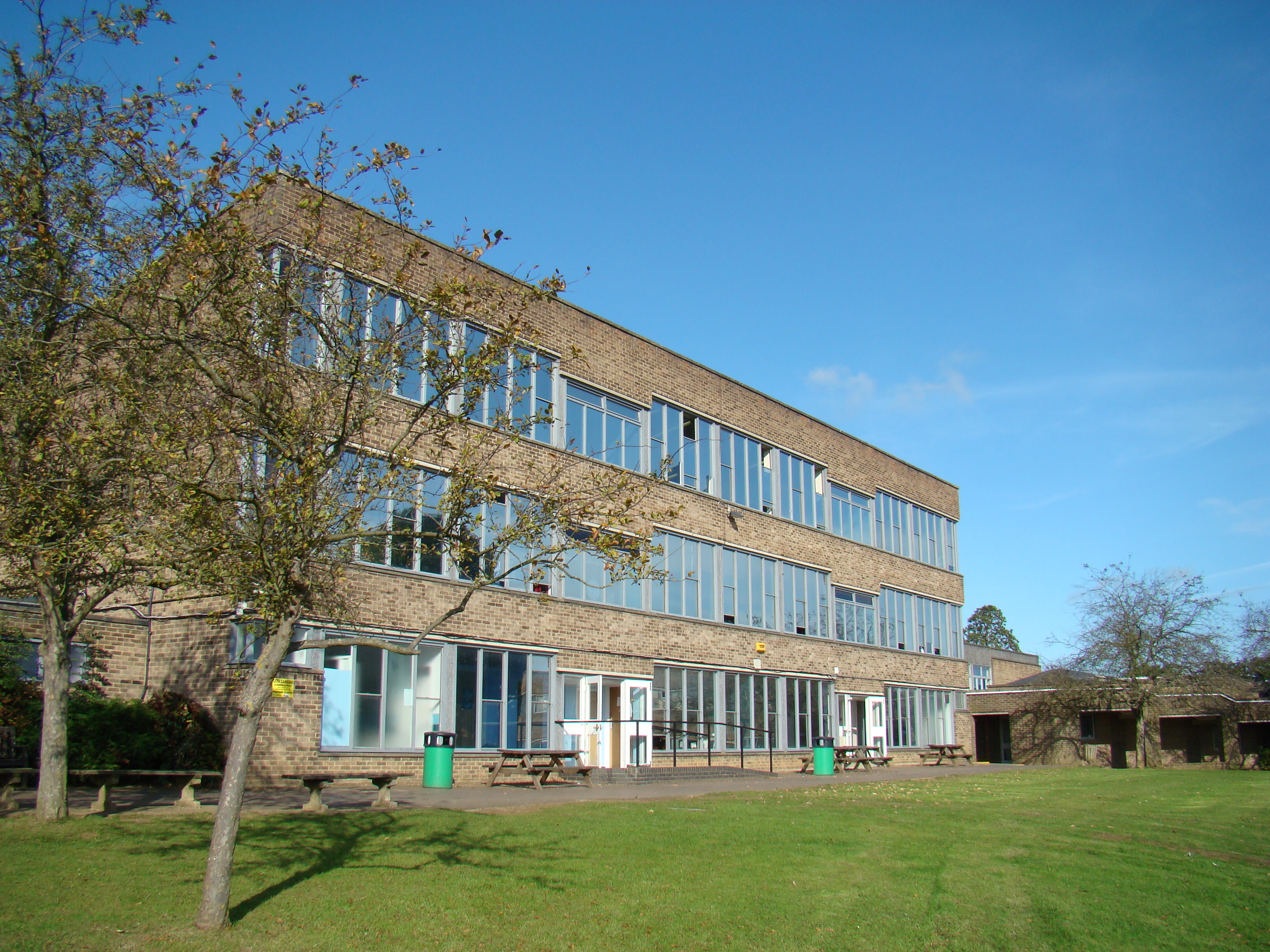 The Main Block of the Royal Latin School, Buckingham, United Kingdom